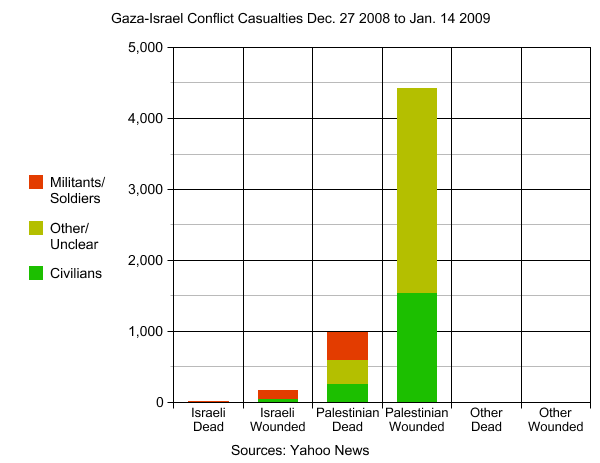 Unclear include the major estimates and the dead which are not known to be either civilian or militant. The militant casualties on the side of the Palestinians cannot be verified.